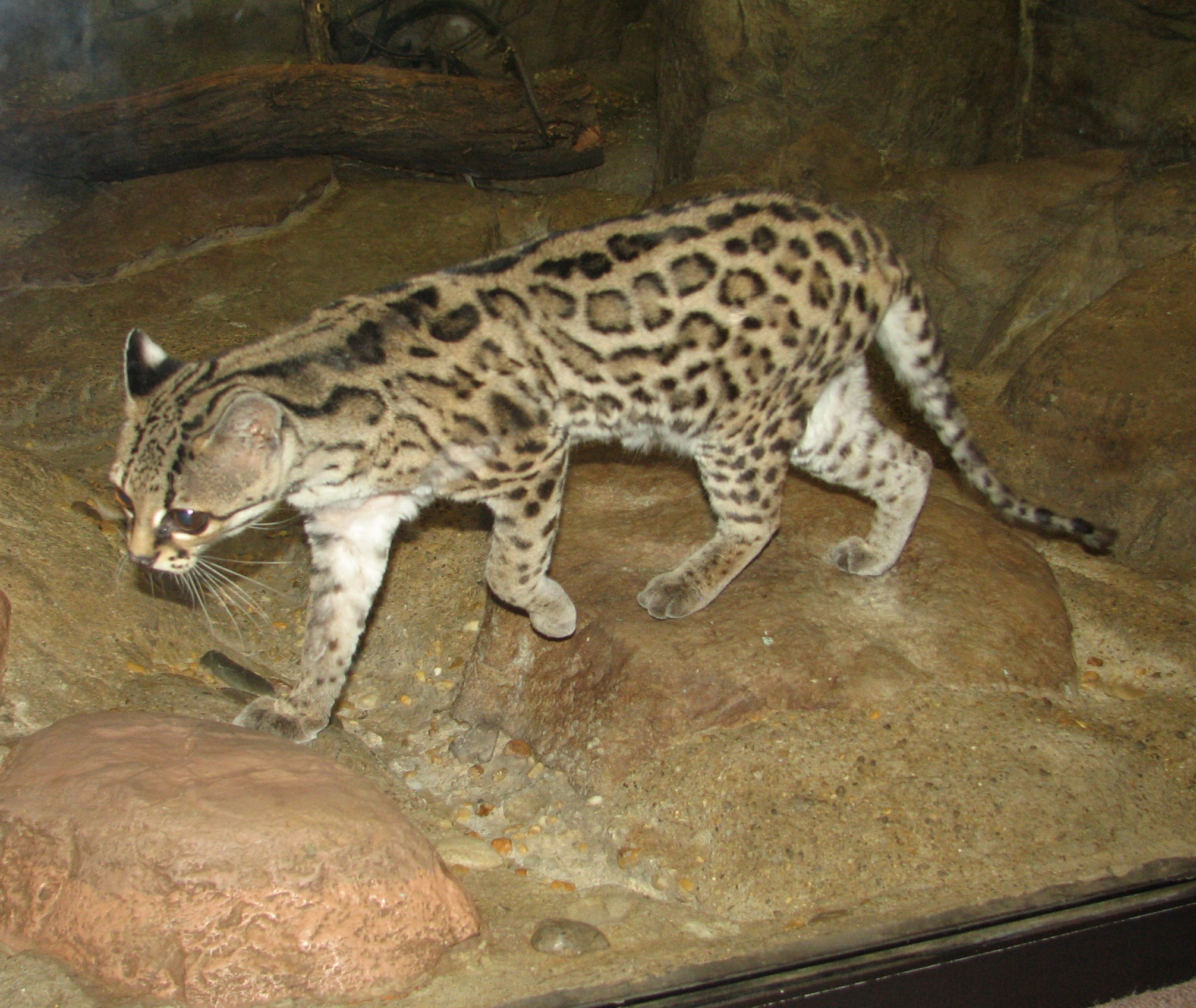 Margay - Leopardus wiedii at Cincinnati Zoo